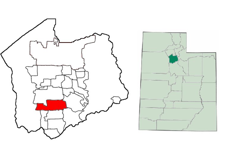 Locator maps U.S. cities derived from PD state maps by different users from en.wikipedia. the filename has sometimes been adapted to the general syntax